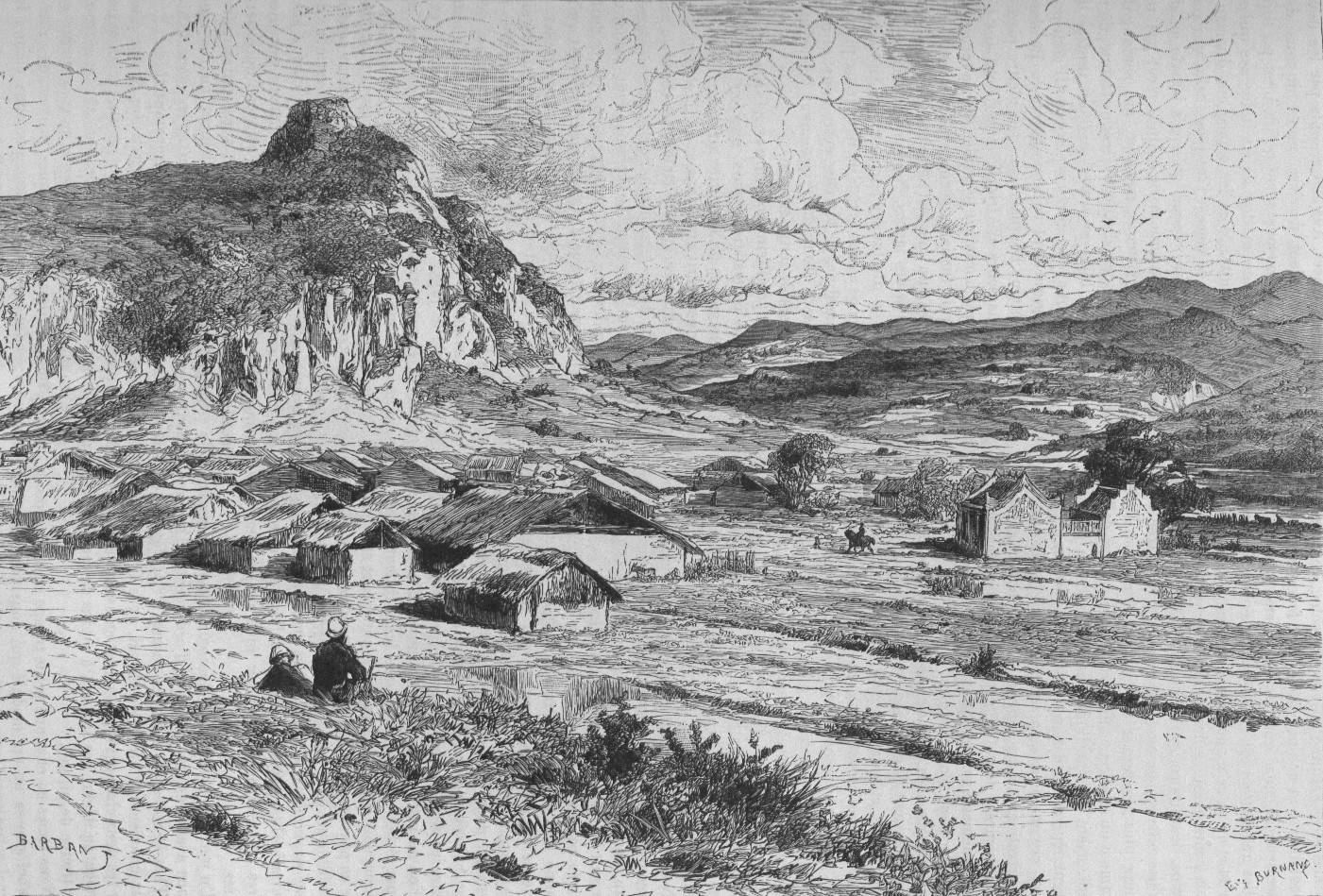 View of Dong Dang, October 1885